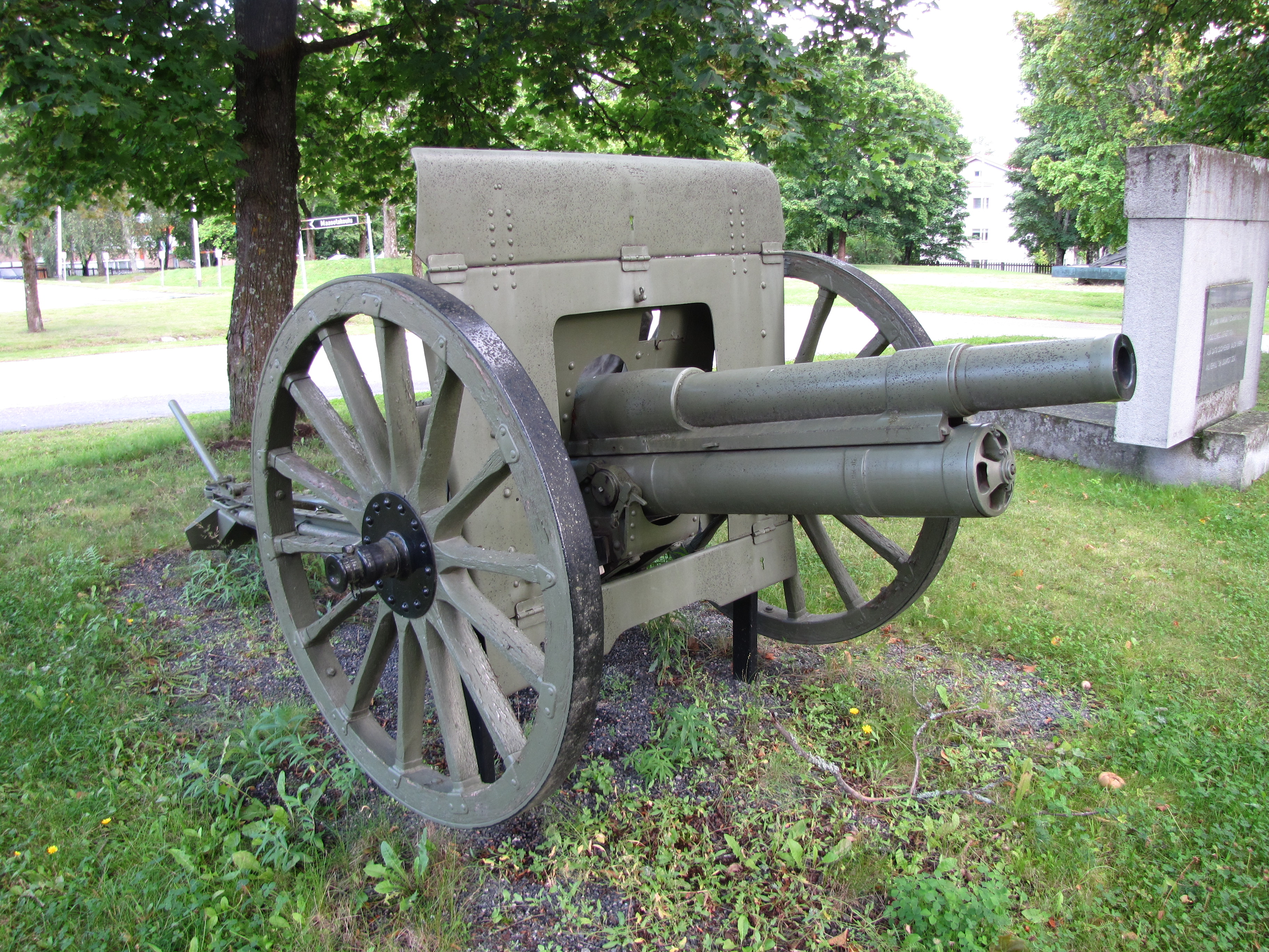 Memorial of field artillery regiment 2 and 3 as well as artillery regiment Karjala in Lappeenranta. The gun is a en:76 mm divisional gun M1902.